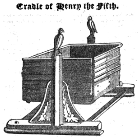 Woodcut of the "Cradle of Henry V" from Mirror of Literature vol. 5